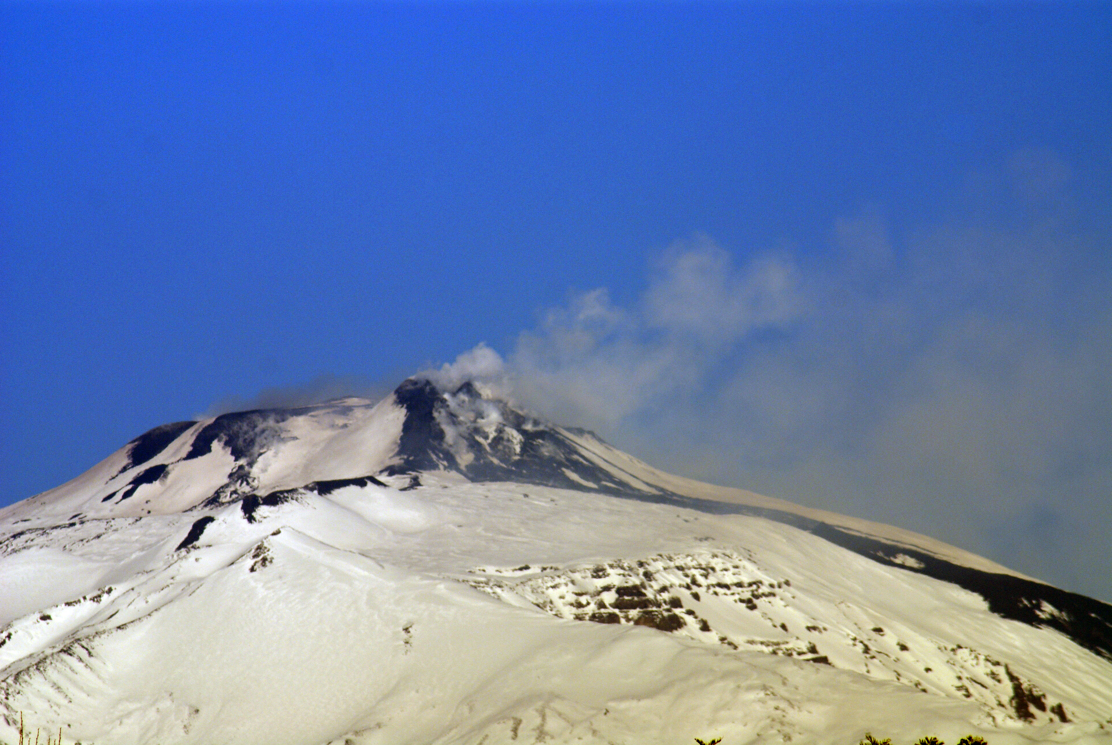 Mount Etna from Catania public garden.